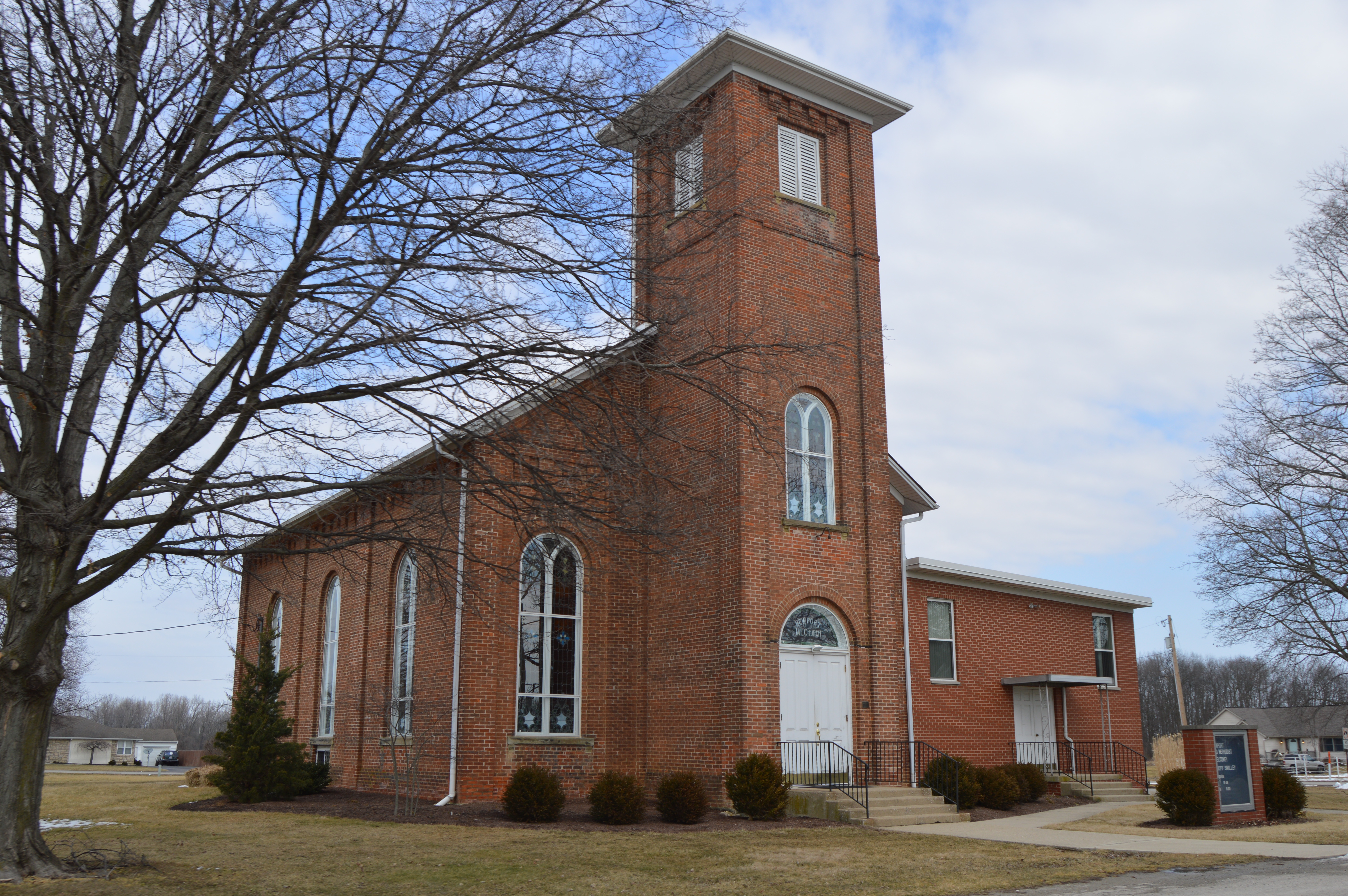 Front and southern side of the Newport United Methodist Church, located at 80 Center Street at Newport in Paint Township, Madison County, Ohio, United States. It was built in 1872.